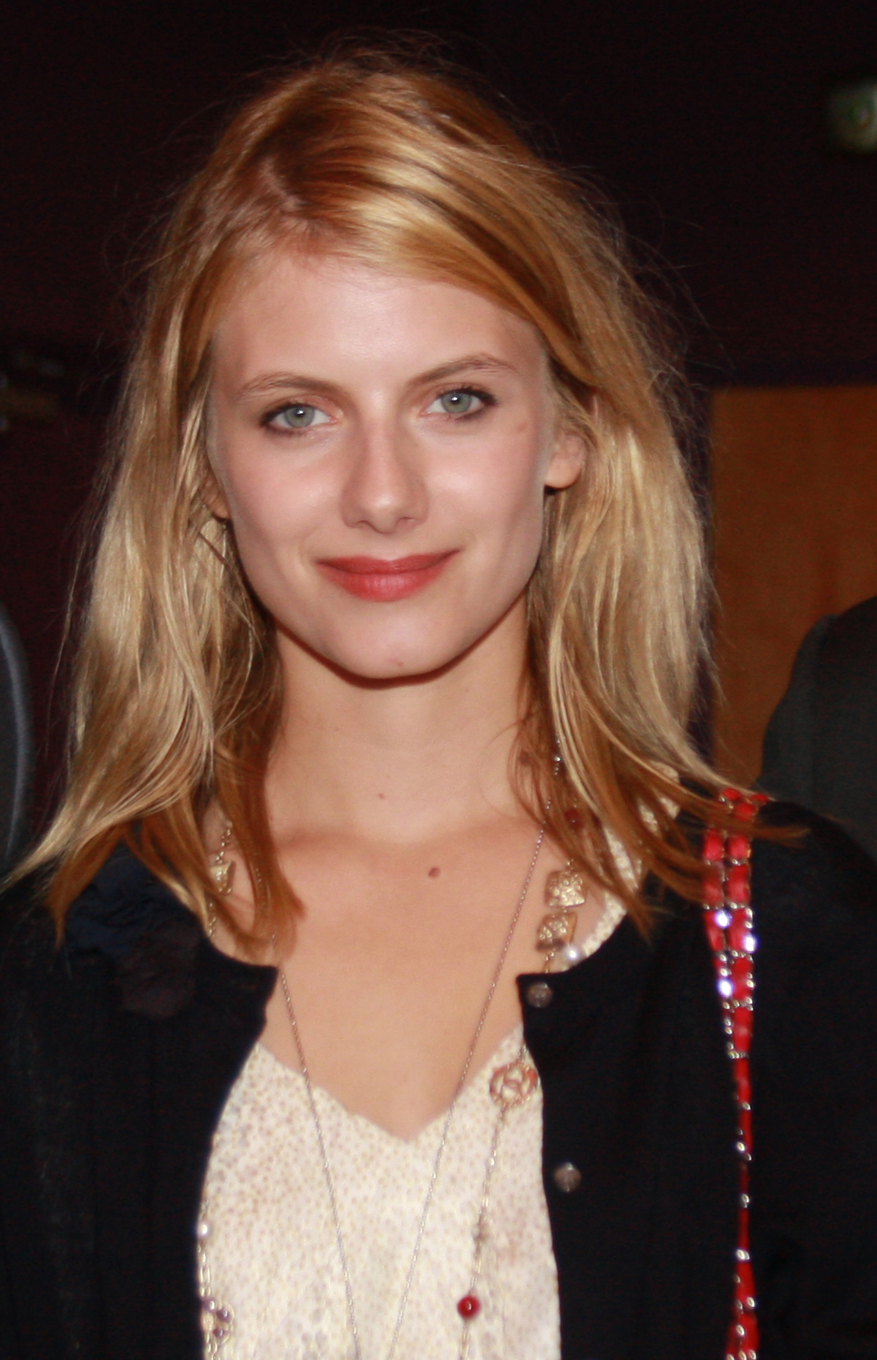 Mélanie Laurent at a premiere for Inglourious Basterds.